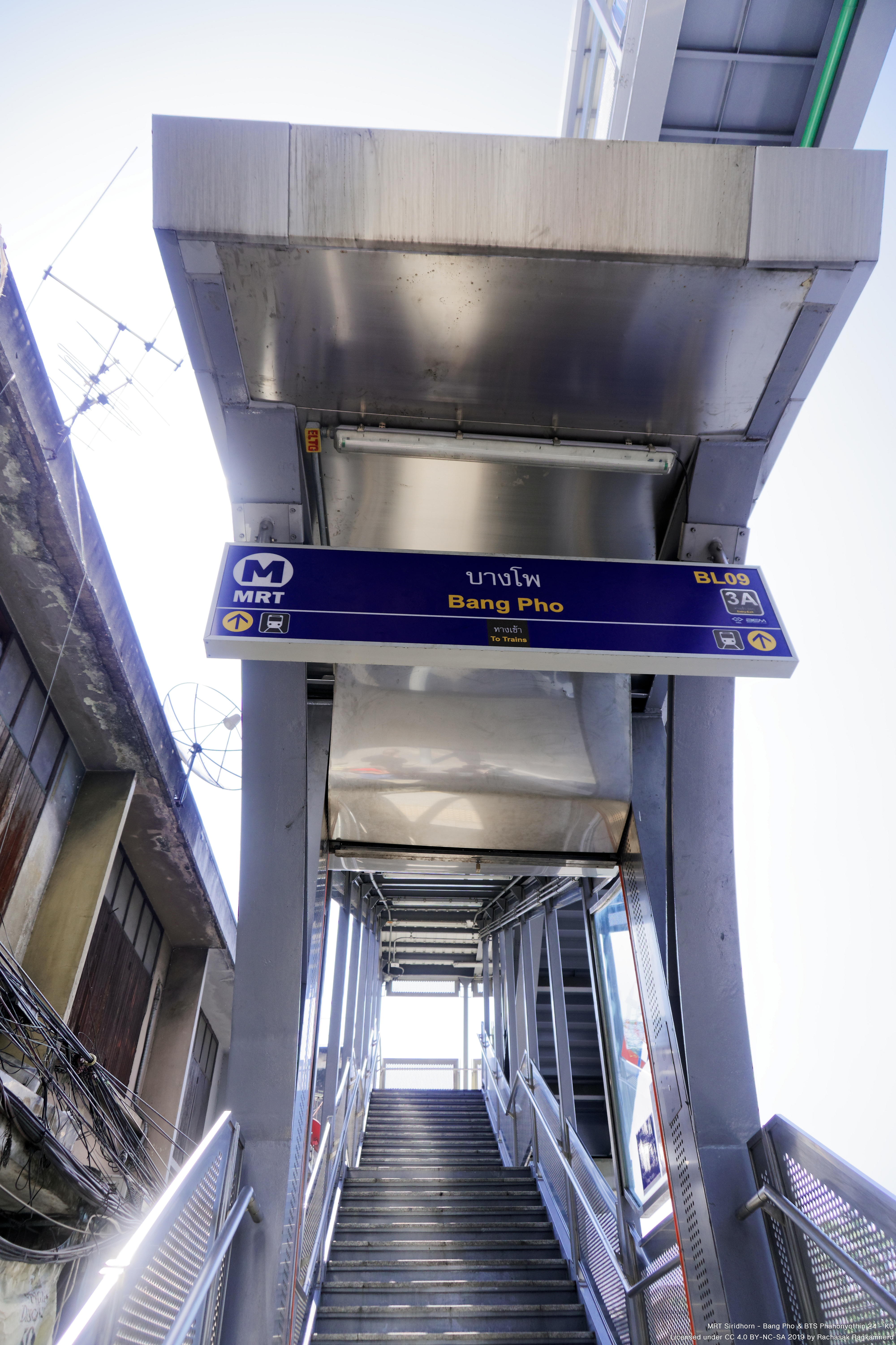 MRT Bang Pho - Exit 3A